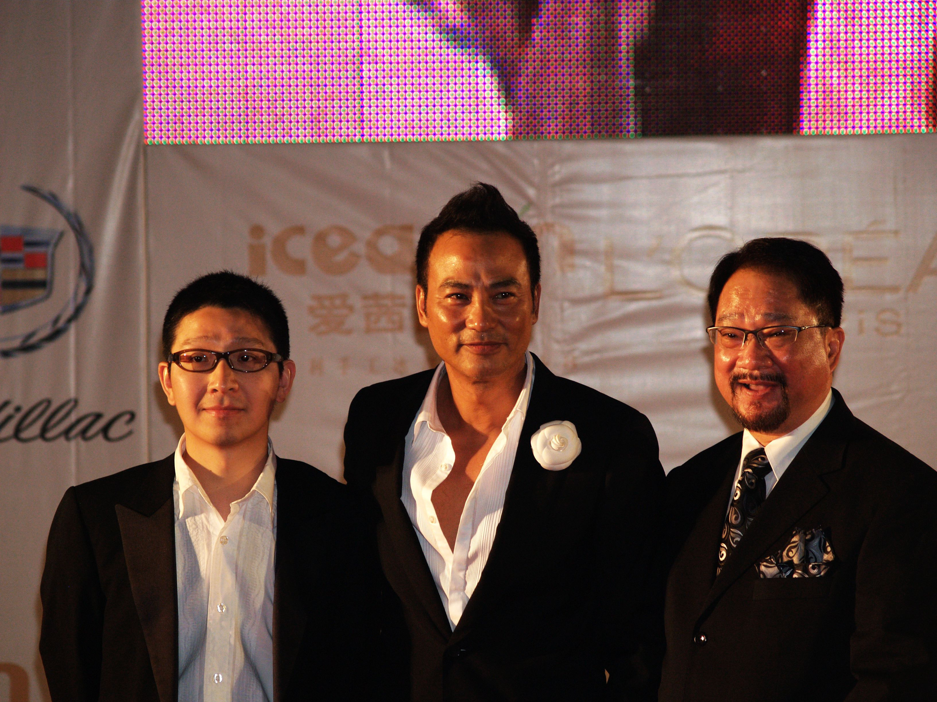 Simon Yam